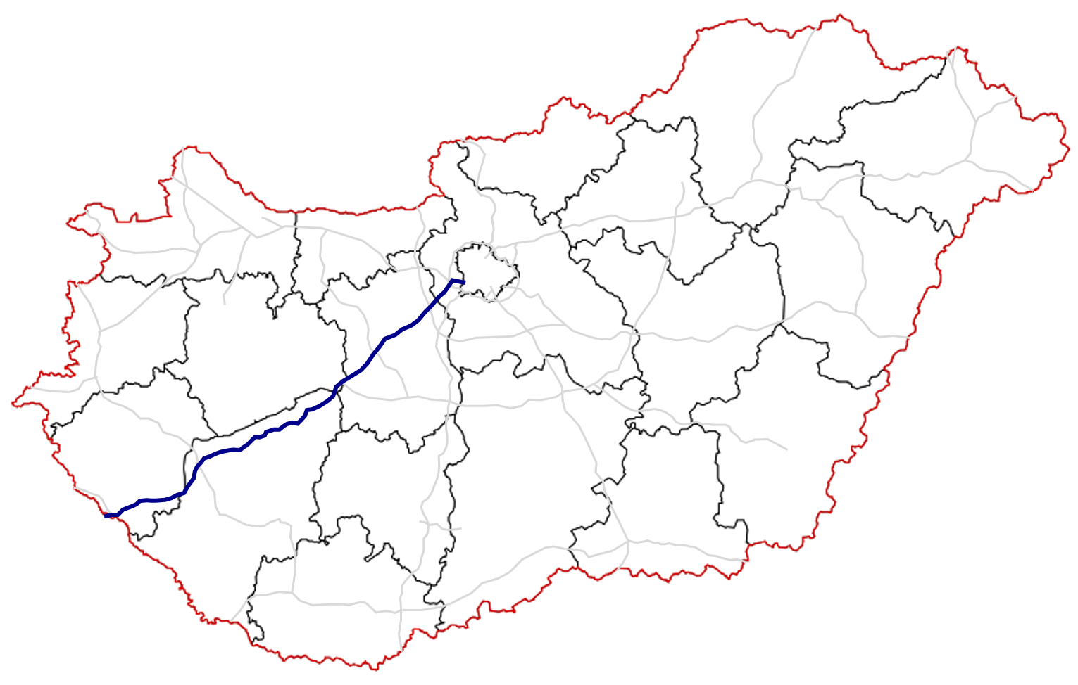 Traject the M7 Motorway, Hungary (Blue: in use, Light blue: under construction, Green: planned)